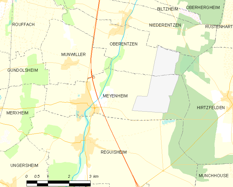 Map of French municipality